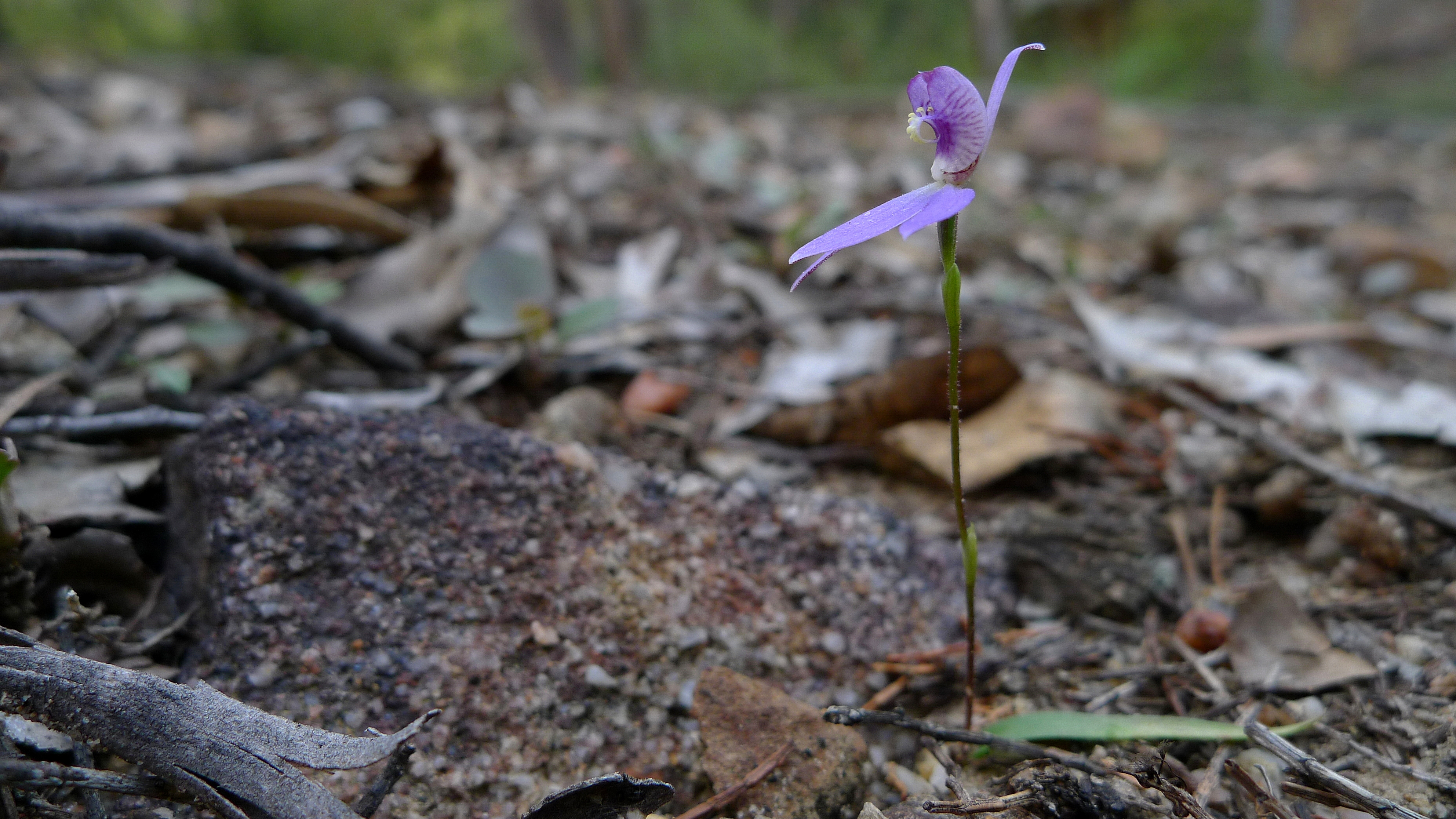 Blue Caladenia, Cyanicula caerulea, habit. Coorongooba, Wollemi National Park, NSW, Australia, September 2014.